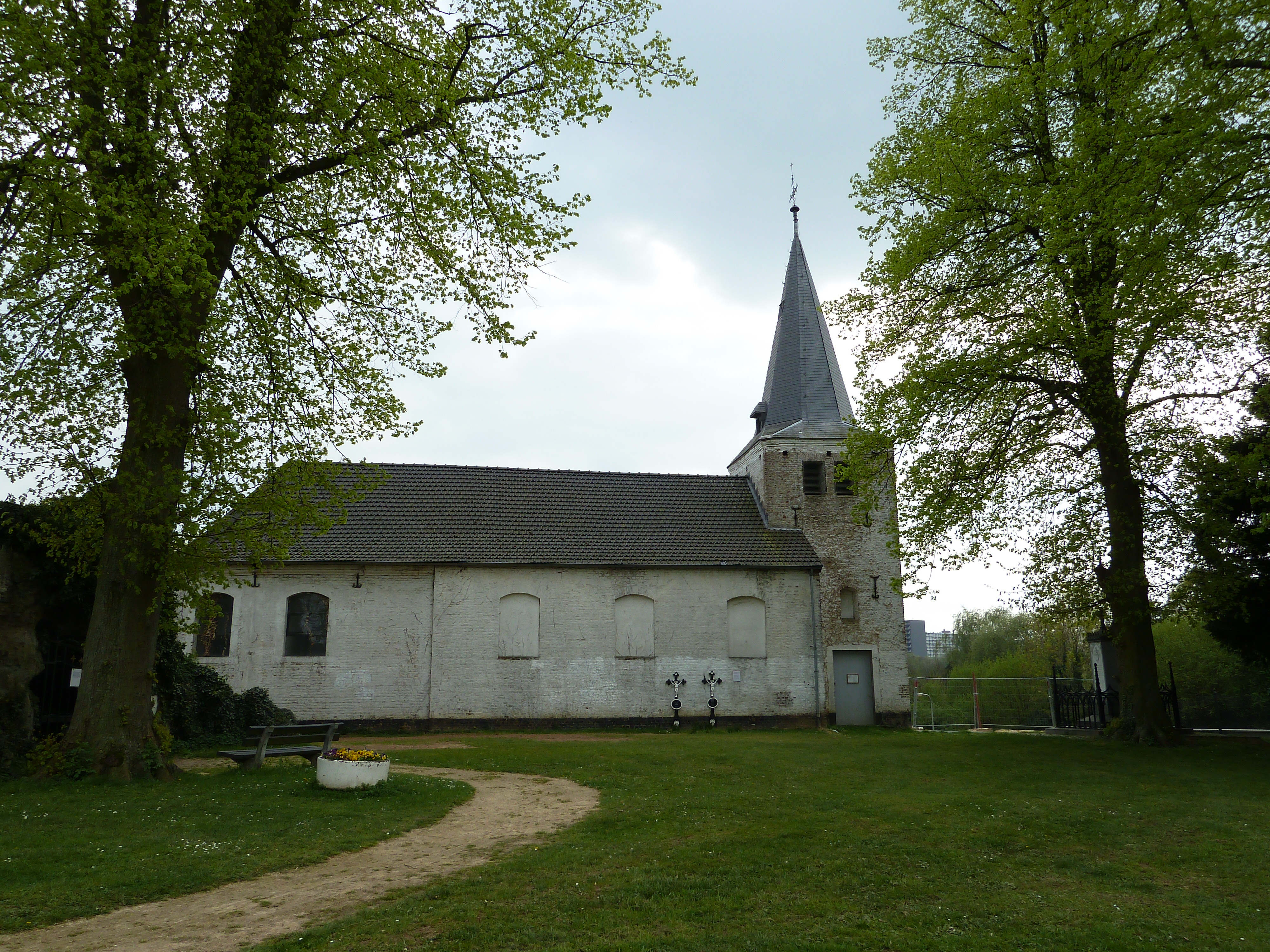 Sint-Clemenskerk, Brunssum, Limburg, the Netherlands